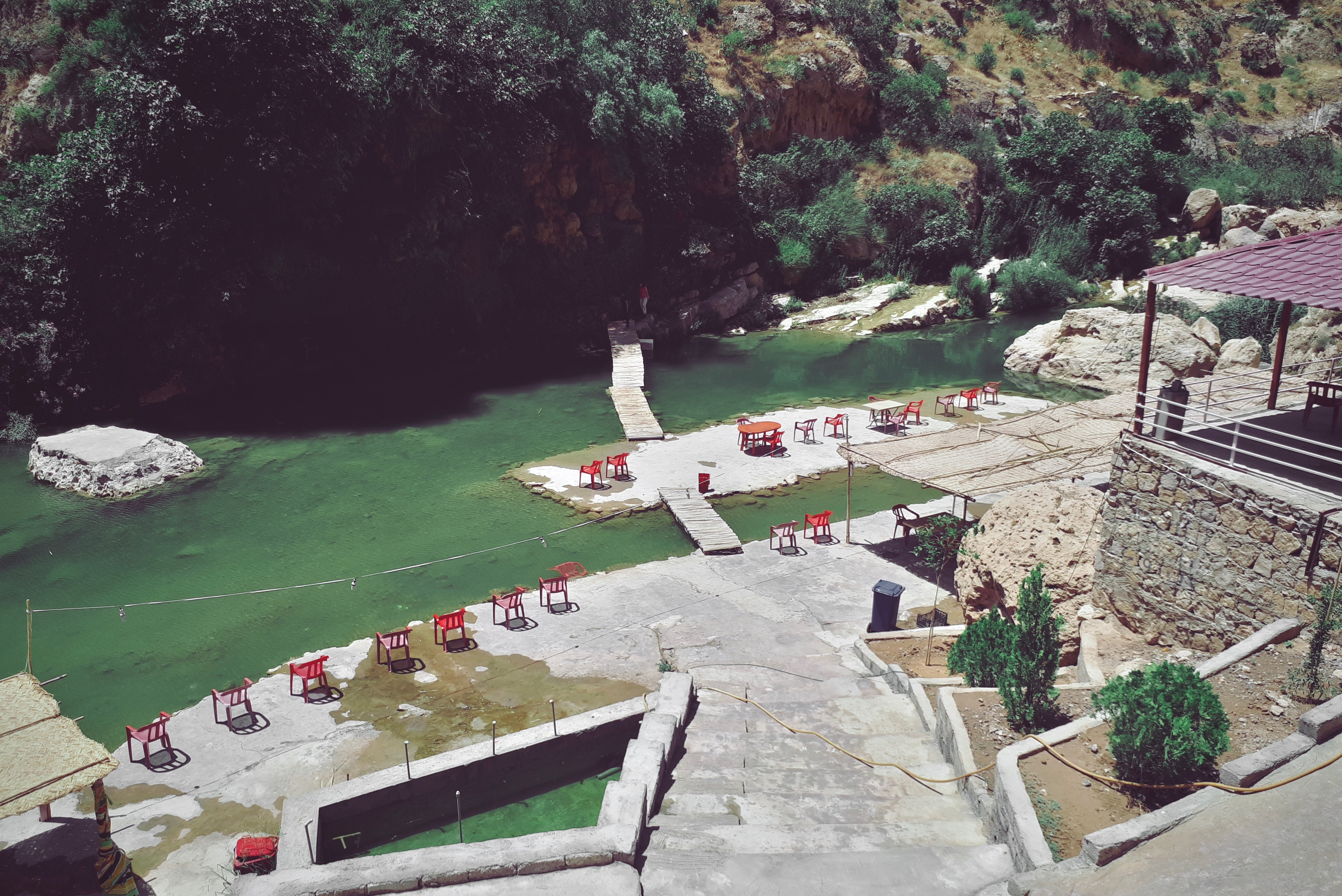 Gali Zinta (Zinta Valley) near Akre town, Duhok Governorate, in the Kurdistan Region of Iraq